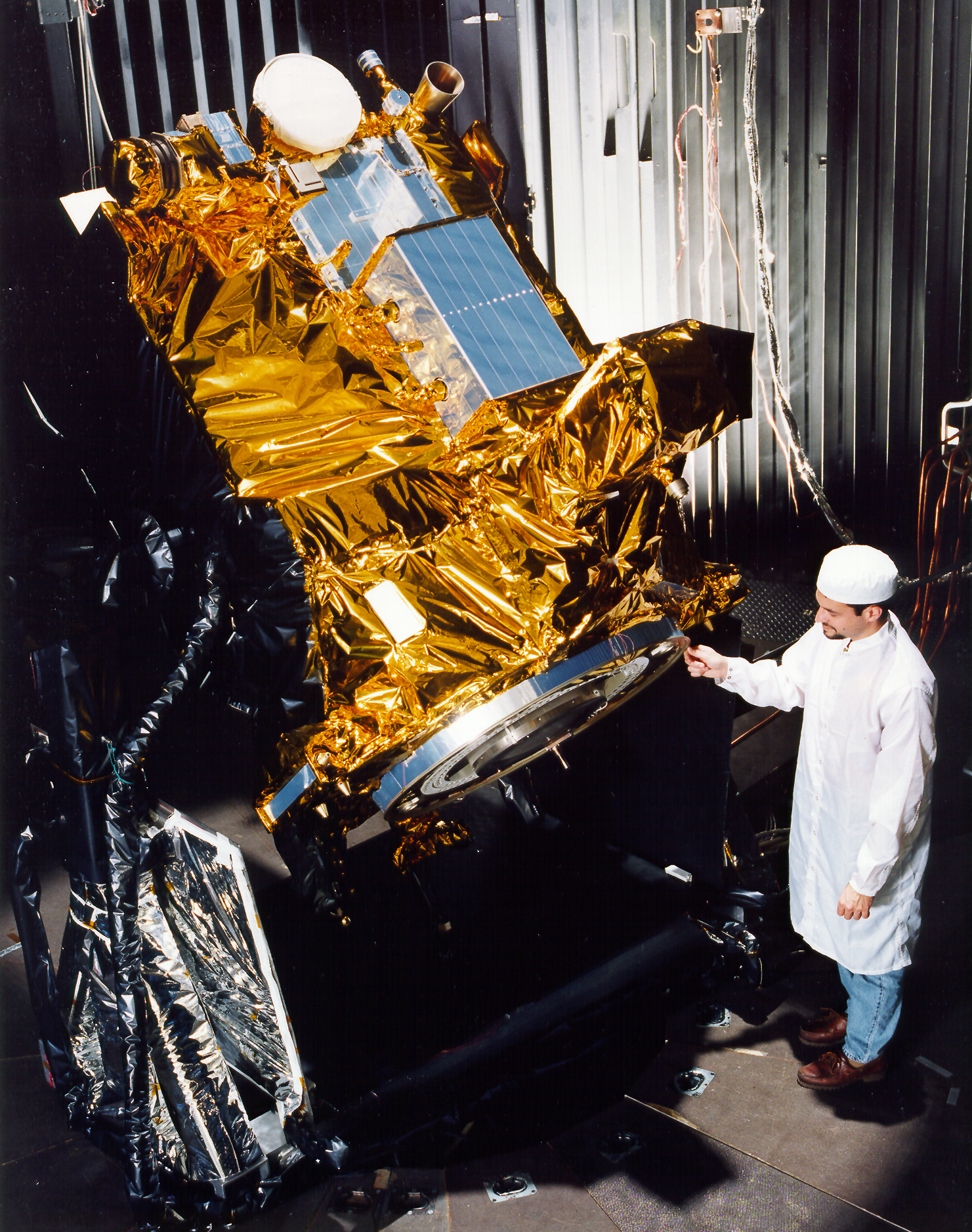 The completely assembled Deep Space 1 (DS-1) technology demonstrator spacecraft. The DS-1 spacecraft incorporates a number of advanced technology concepts in its mission, but none so "high profile" as its Ion propulsion system. The name itself evokes visions of Star Trek and science fiction fantasy, although the idea actually dates from the 1950s. However, unlike the "Warp Drive" propulsion system that zings the fictional starship Enterprise across the cosmos in minutes, the almost imperceptible thrust from the ion propulsion system is equivalent to the pressure exerted by a sheet of paper held in the palm of your hand. The ion engine is very slow to pick up speed, but over the long haul it can deliver 10 times as much thrust per pound of fuel as more traditional rockets. Unlike the fireworks of most chemical rockets using solid or liquid fuels, the ion drive emits only an eerie blue glow as ionized (electrically charged) atoms of xenon are pushed out of the engine. Xenon is the same gas found in photo flash tubes and many lighthouse bulbs. Deep Space 1 was launched in October 1998 as part of NASA's New Millennium Program, which is managed by JPL for NASA's Office of Space Science, Washington, DC. The California Institute of Technology in Pasadena manages JPL for NASA.